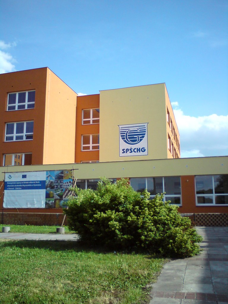 Building insulation of Secondary Technical Chemical School of Academician Heyrovsky and Grammar School in Ostrava-Zábřeh.